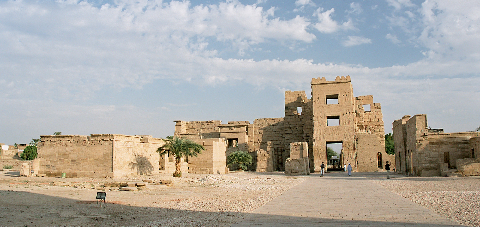 A courtyard in front of the Mortuary Temple of Ramesses III, Medinet Habu, Luxor's west bank, Egypt.